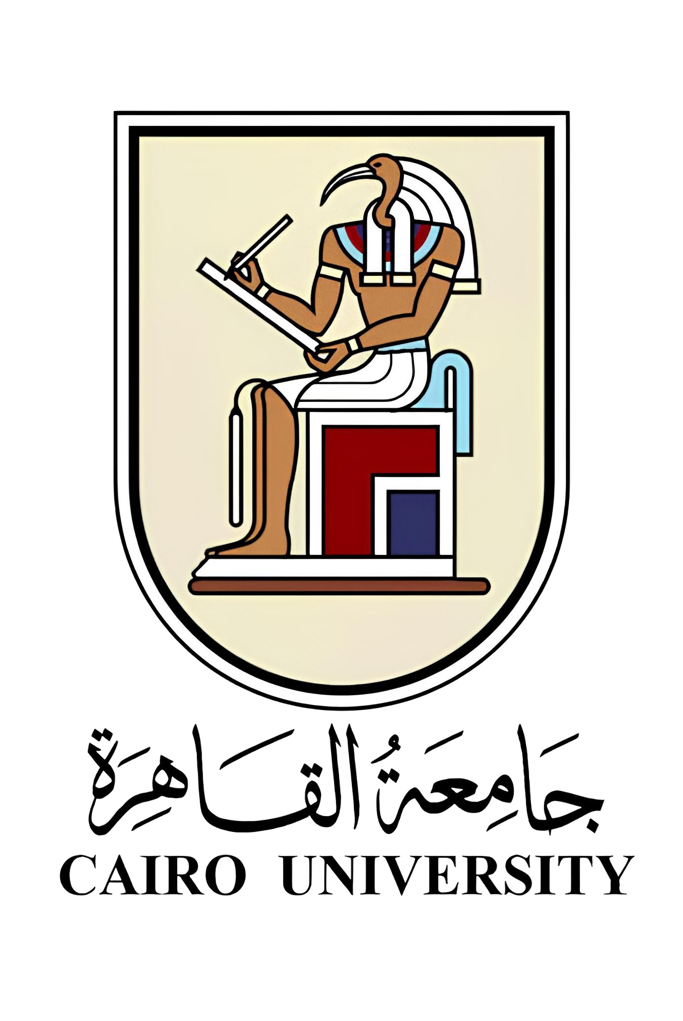 college and university